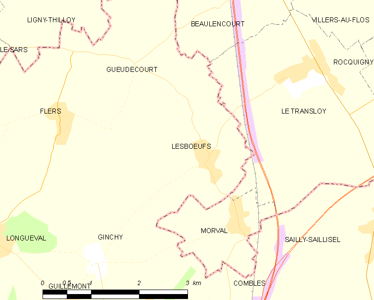 Map of French municipality Lesbœufs